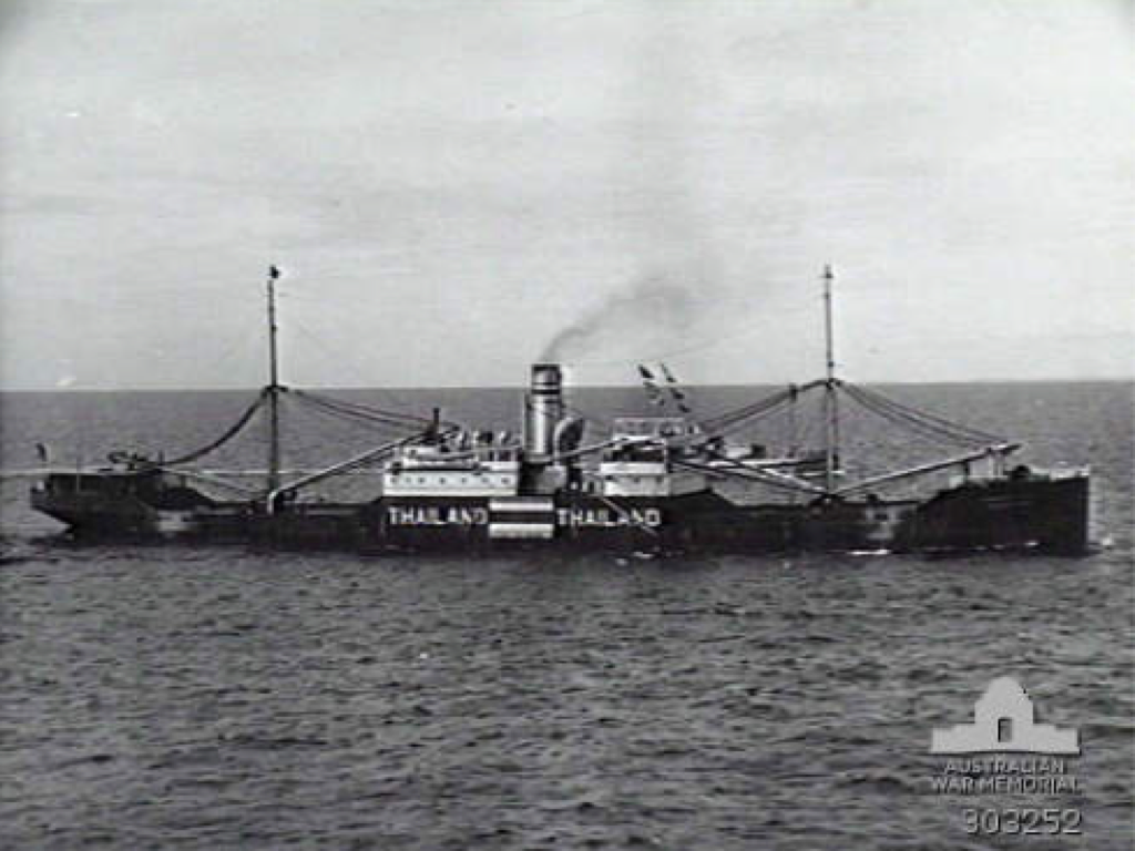 Starboard side view of the Thai cargo vessel SS THEPSATRI NAWA, later taken over by the British as the EMPIRE HAMBLE. Note the prominent nationality and flag painted on the ship's side to indicate her neutrality, which dates the photograph as prior to 1941-12-07.